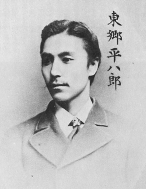 Togo Heihachiro during his studies in Europe.